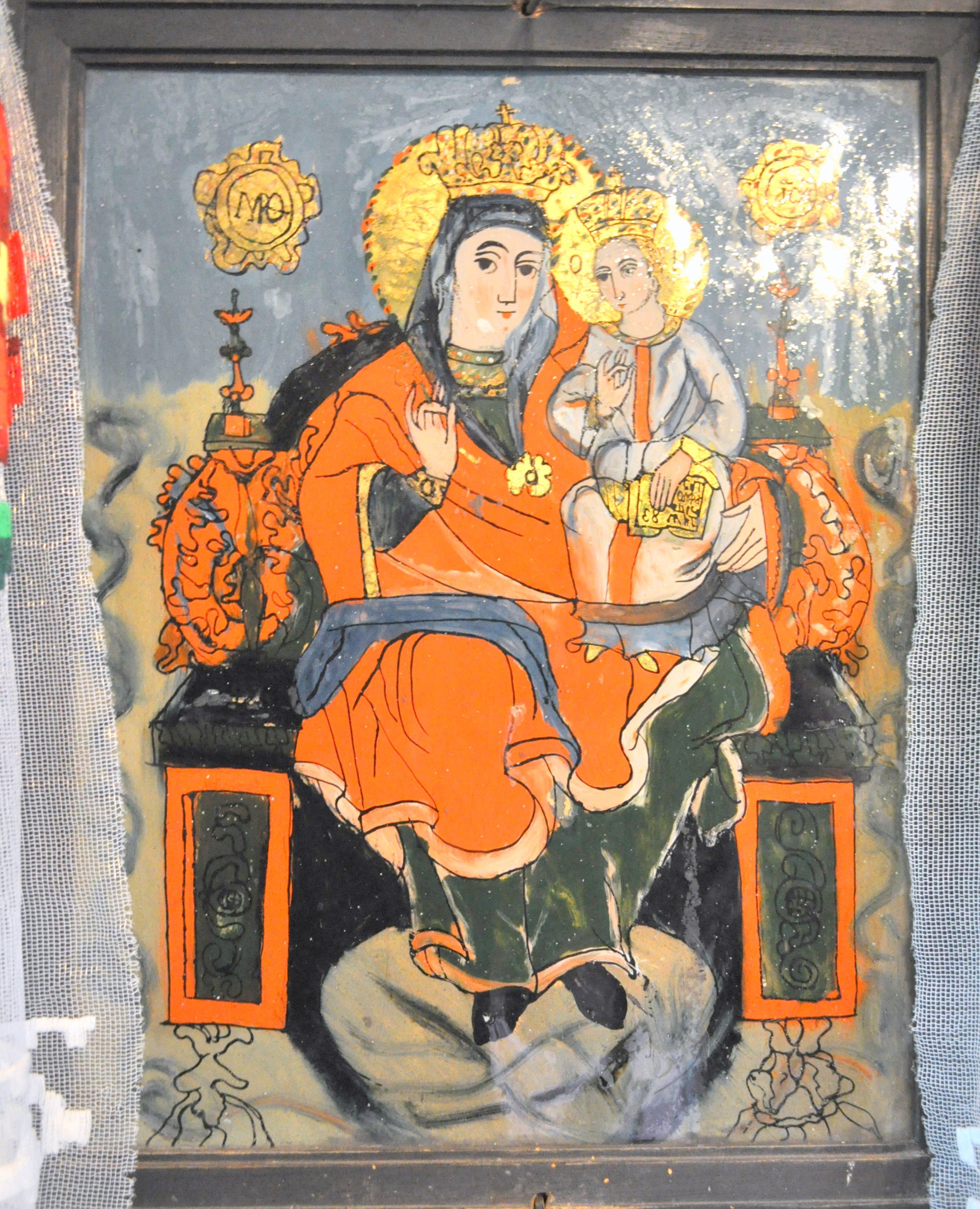 Wooden church in Micănești, Hunedoara county